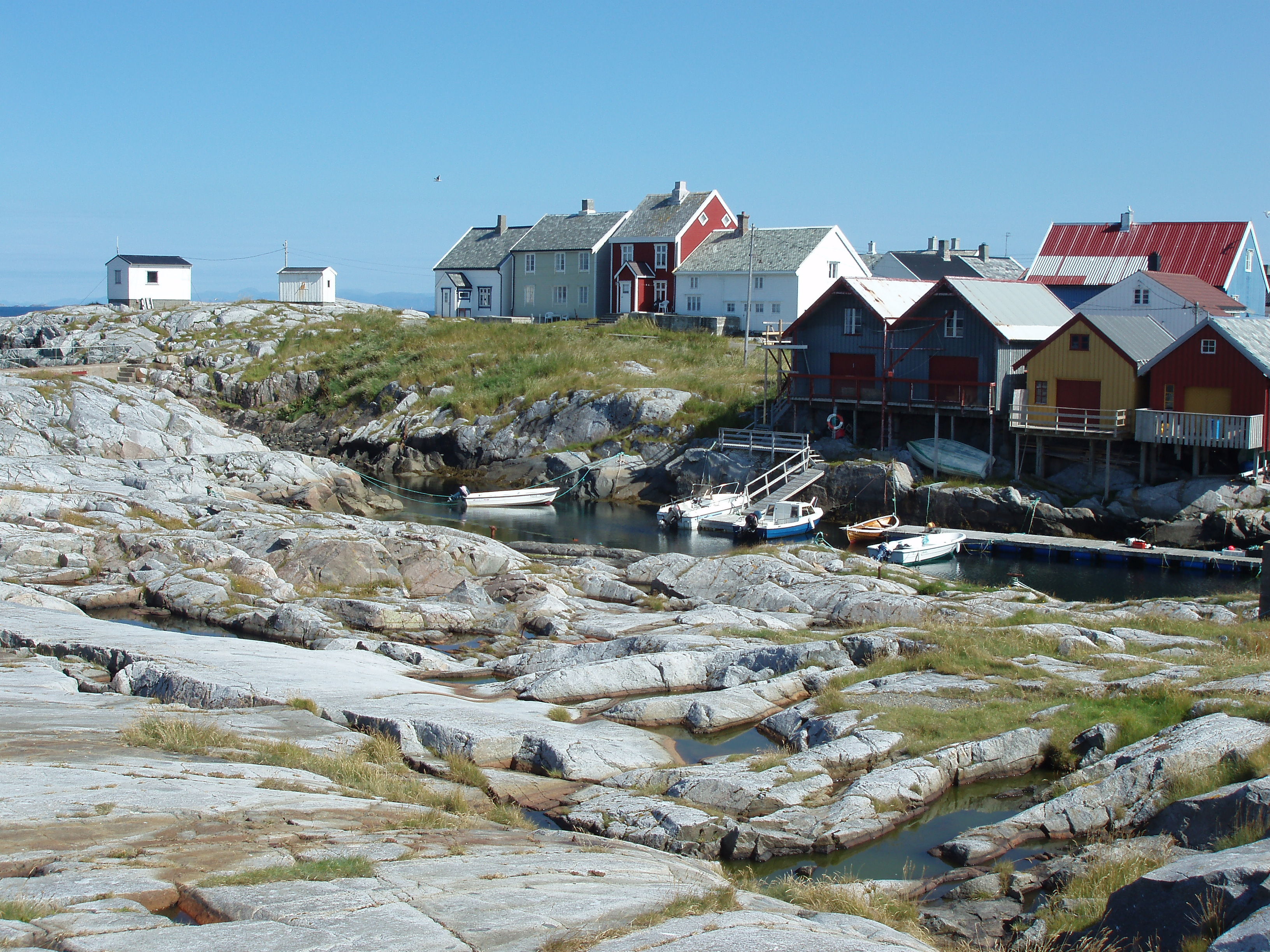 The northern side of the island Grip in Kristiansund municipality in Møre og Romsdal county in Norway. The houses are placed close to each other to shield against the wind. A piece of the northern harbour can also be seen.